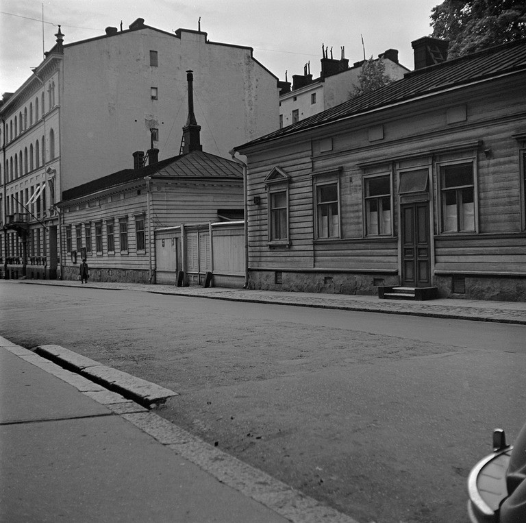 wooden houses at Uudenmaankatu 19-21 in Helsinki in the 1950's (later moved to Kaisaniemenranta)